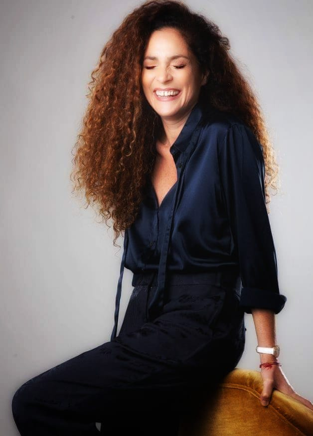 Simona Cavallari smile at home